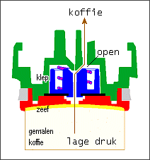 Scheme of the CoEx-switch for coffee.